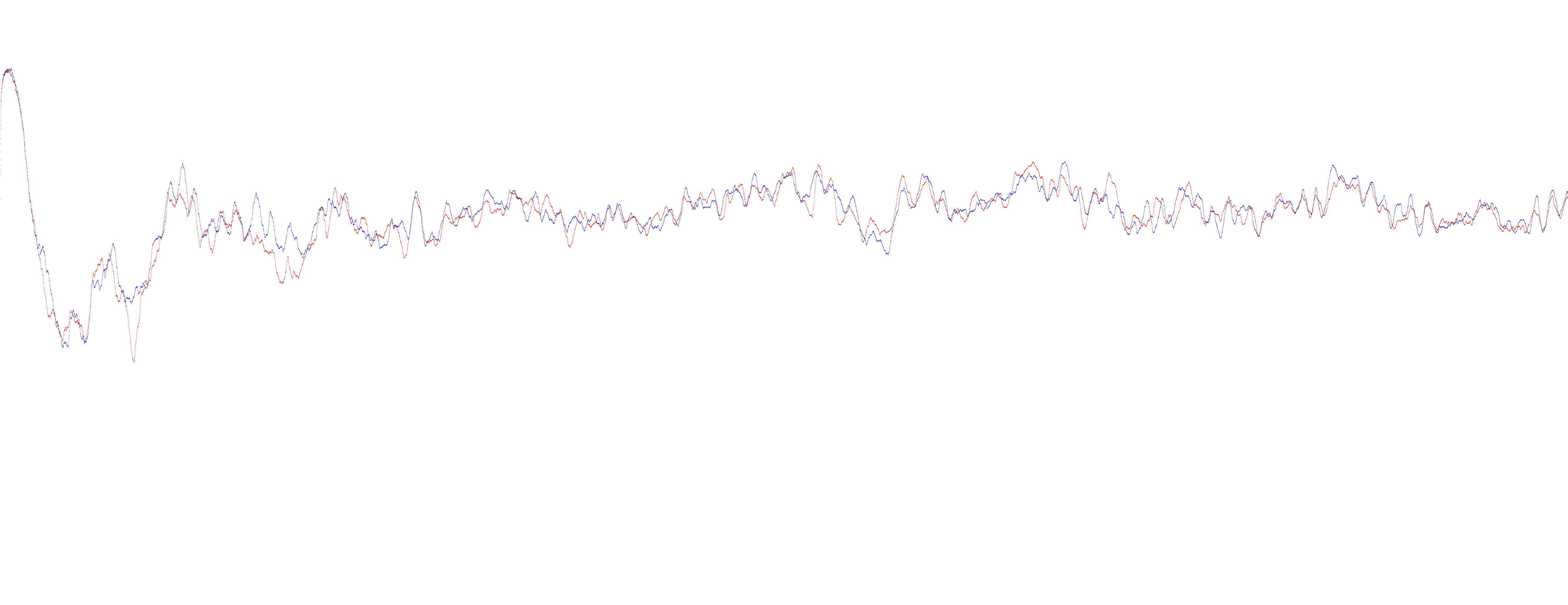 A graph of mobility for the Biham-Middleton-Levine traffic model corresponding to the lattice in File:Bml x 512 y 512 p 33 iterated 0.png and File:Bml x 512 y 512 p 33 iterated 32000.png. The vertical axis represents the number of cars that can move, and the horizontal axis represents the turn. The vertical axis is normalized so tha the top edge is one and the bottom edge is zero; likewise the horizontal axis has a range of 0 to 32000. This was created with C++. Source code is located at user:Purpy Pupple/BML.